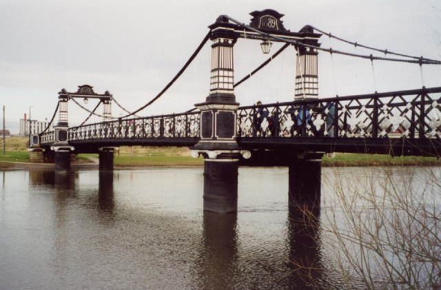 Ferry Bridge, Burton upon Trent. Opened in 1889, this fine suspension bridge over the River Trent, was built by Sir Michael Arthur Bass (later Lord Burton) to replace the Stapenhill Ferry.